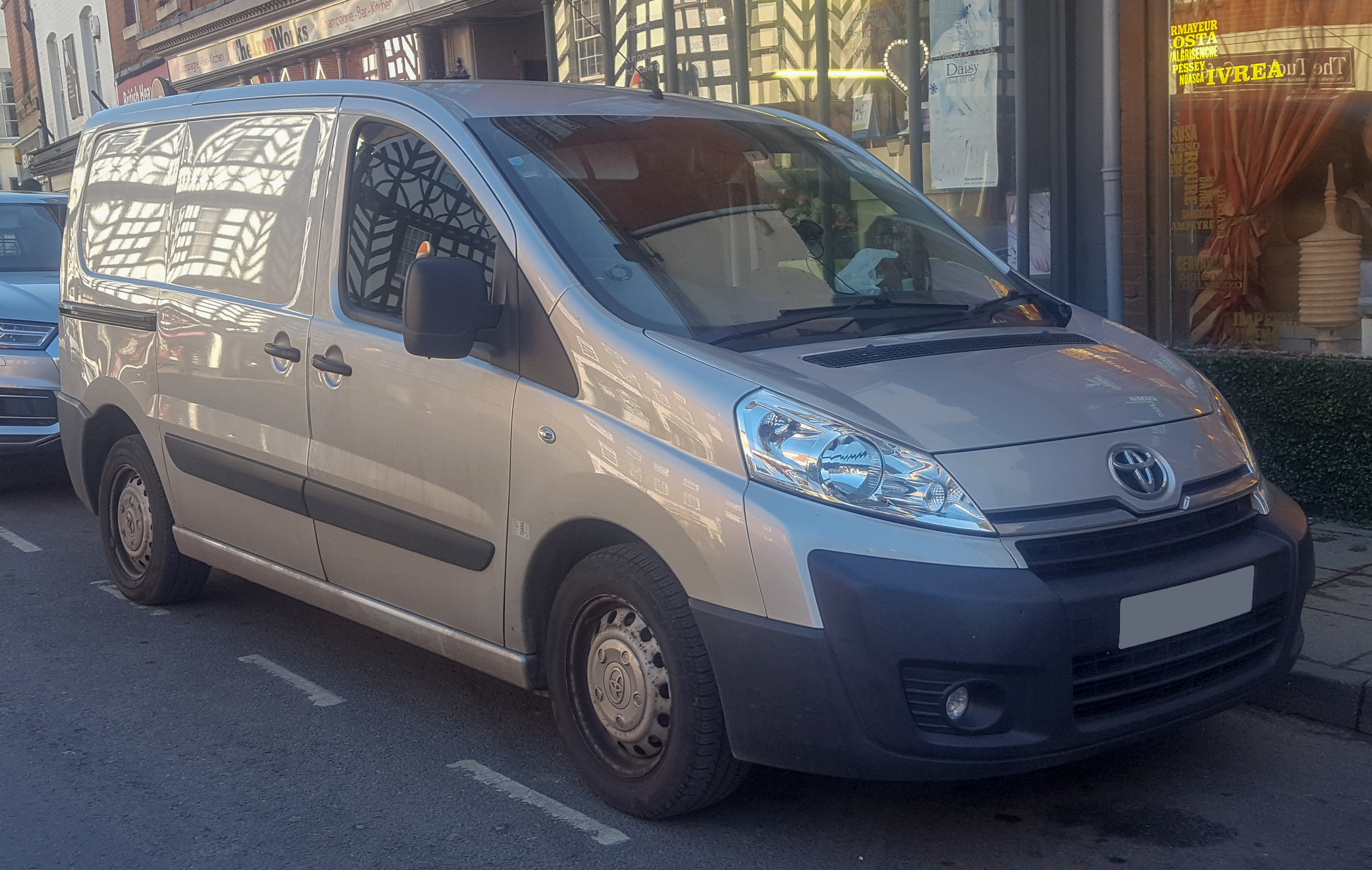 2014 Toyota Proace 1200 L1H1 HDi 2.0 Front Taken in Warwick